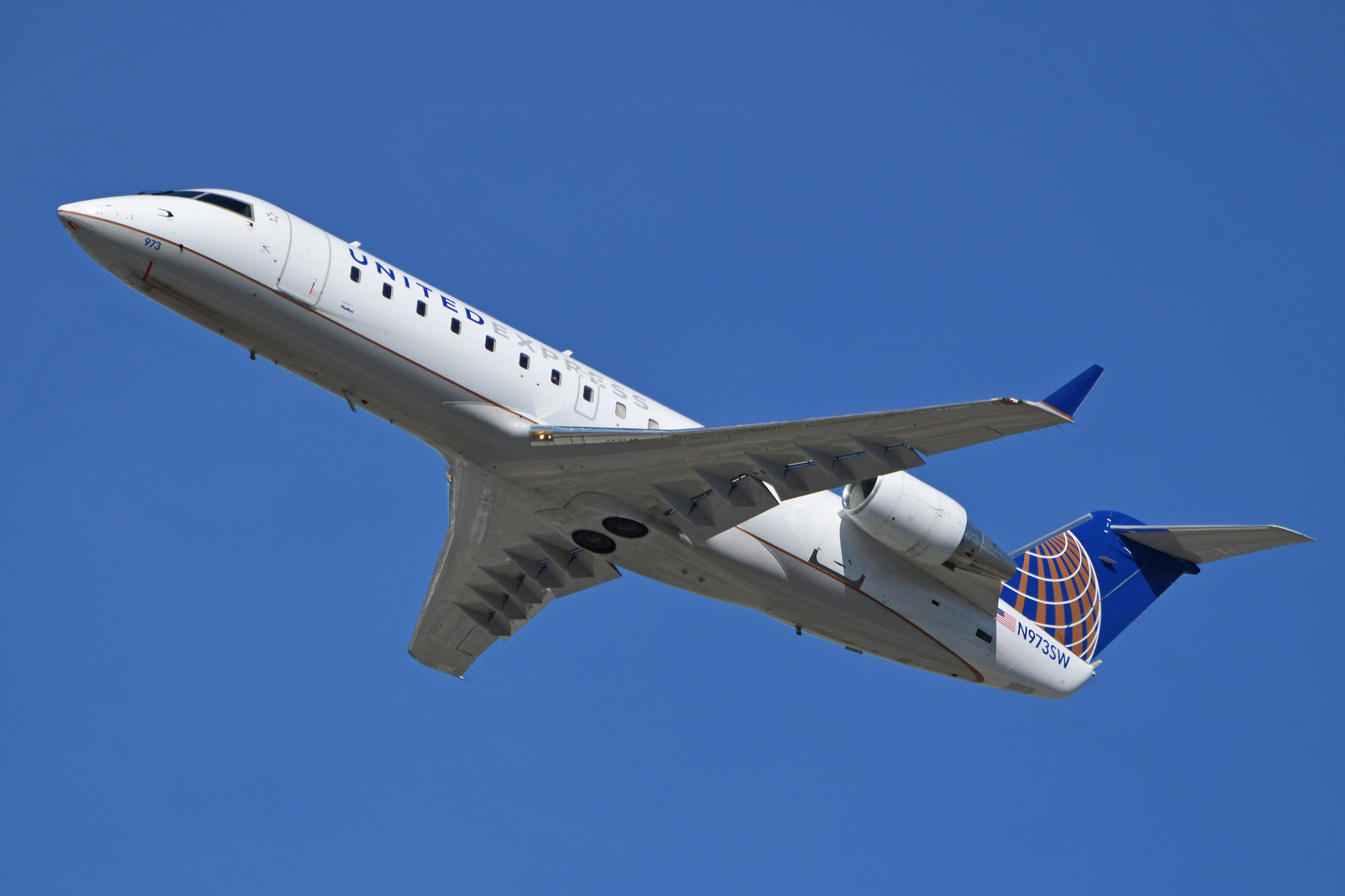 c/n 7949. Built 2004. Seen departing LAX and taken from the Imperial Hill spotting location. Los Angeles, California, USA. 08-2-2014